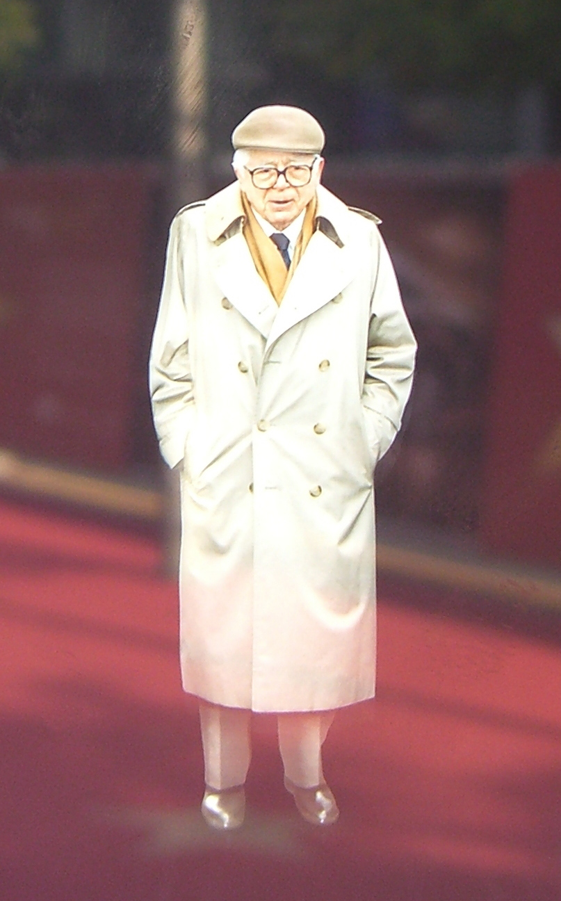 Billy Wilder on his star seen through a Pepper’s Ghost Camera at the "Boulevard der Stars" in Berlin.